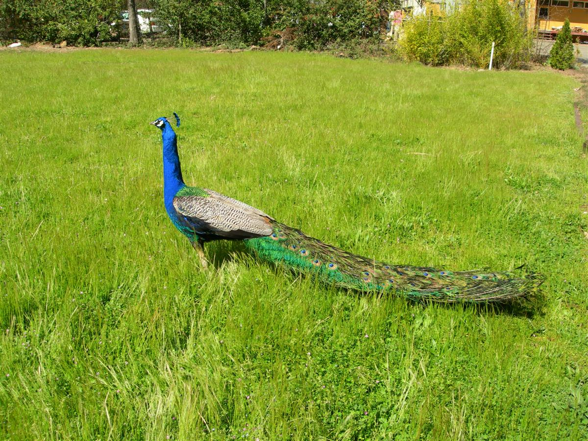 Peacock, taken at the City of Ten Thousand Buddhas on April 19, 2006 by me.